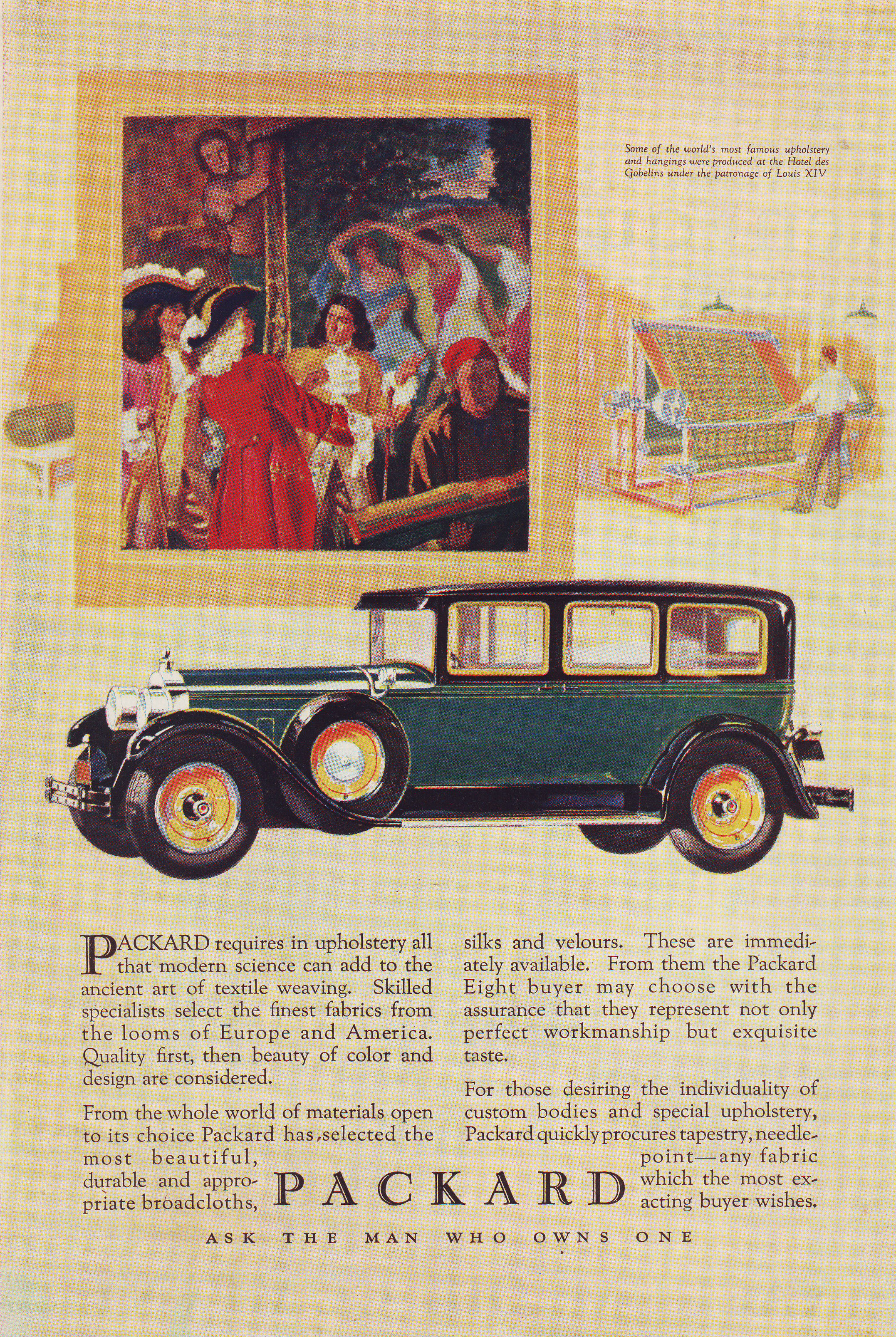 Advertisement for Packard Motor Car Company 1927